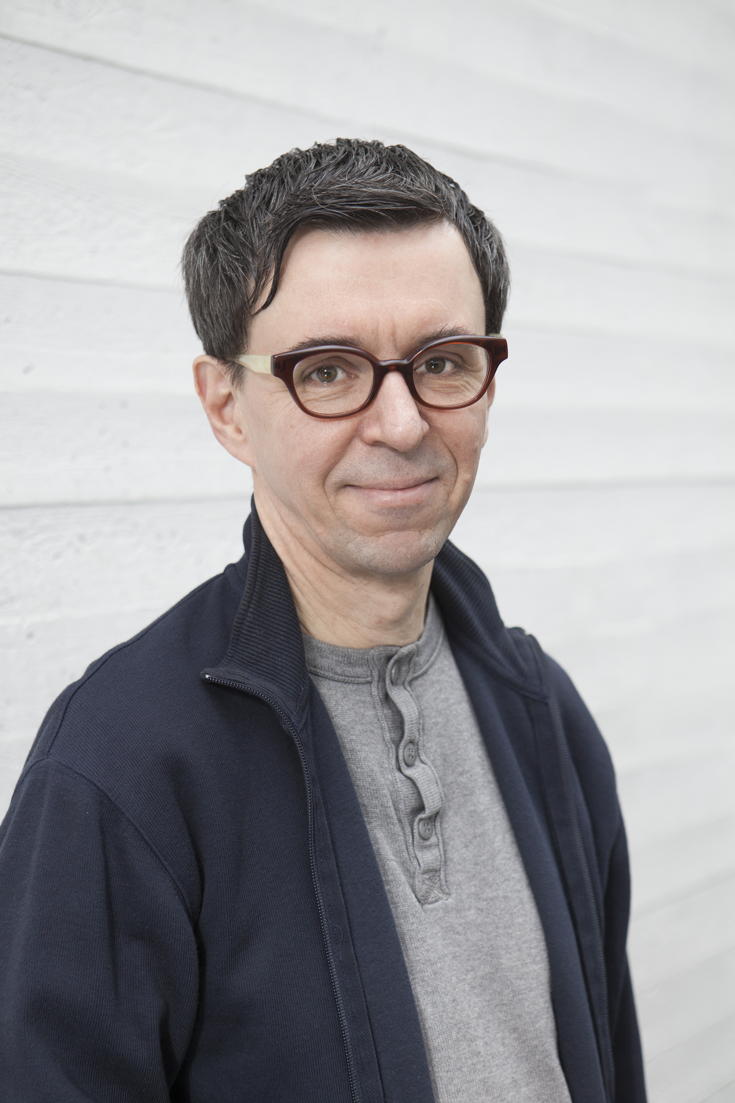 Kiasmassa taiteilija Lauri Astala artist in Kiasma photo: Kansallisgalleria / Pirje MykkänenFinnish National gallery / Pirje Mykkänen